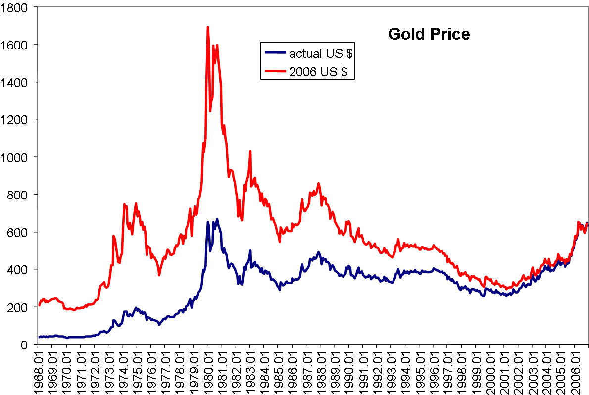 close-notation of gold in usd